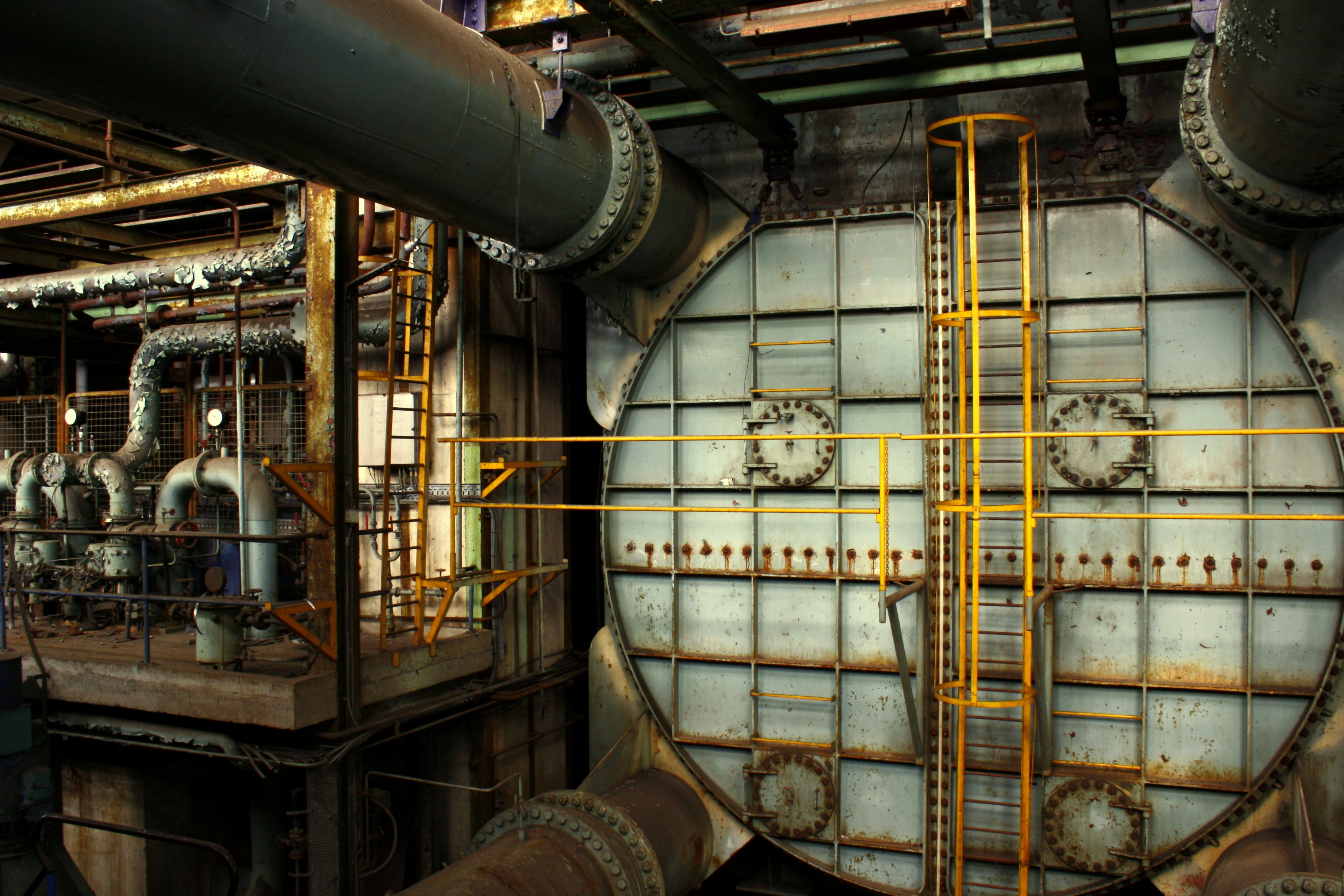 turbine at the ECVB power station